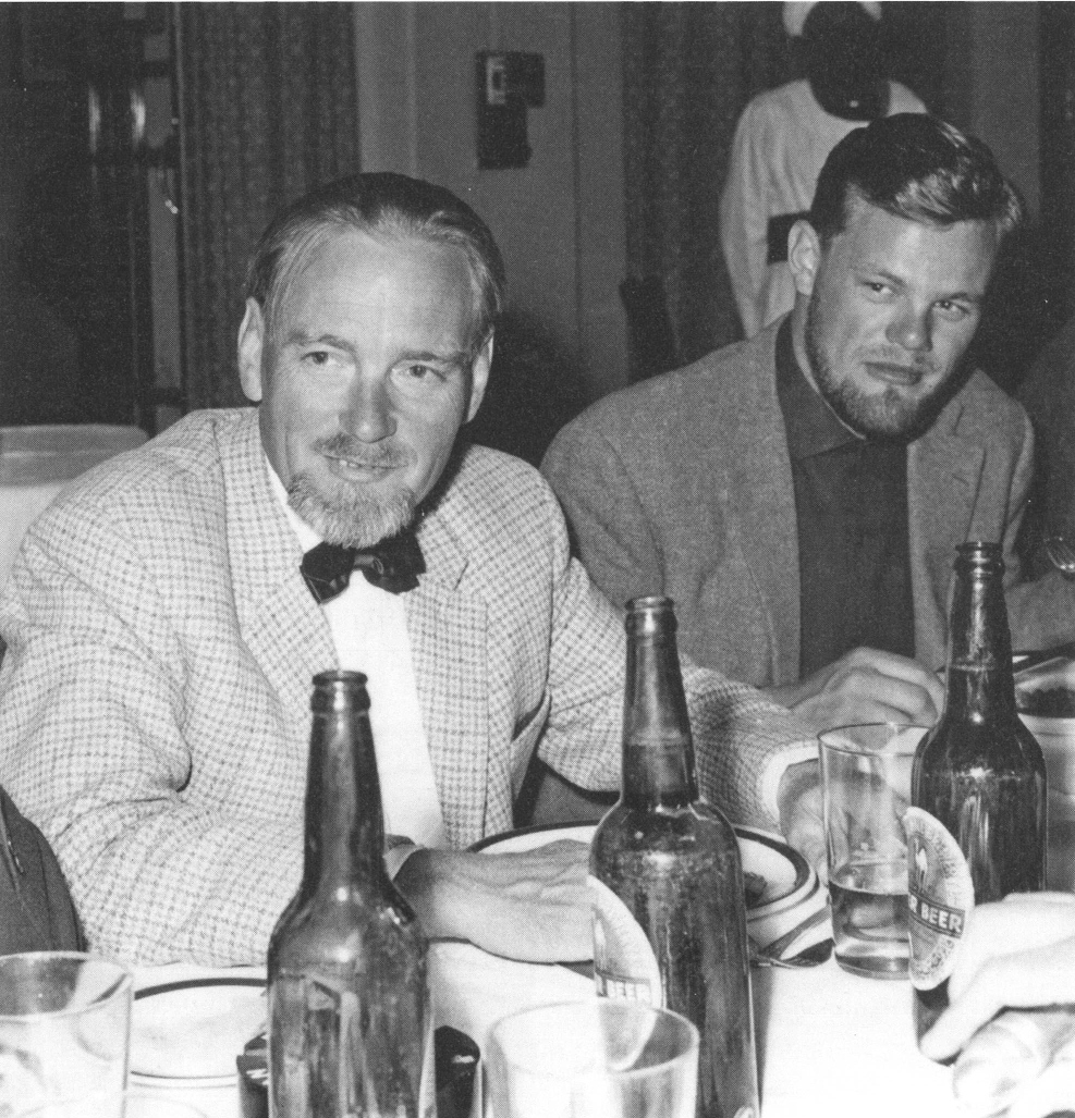 Photograph of the Finnish archaeologist C. F. Meinander (1916–2004) and the Danish archaeologist Hans Jørgen Madsen.